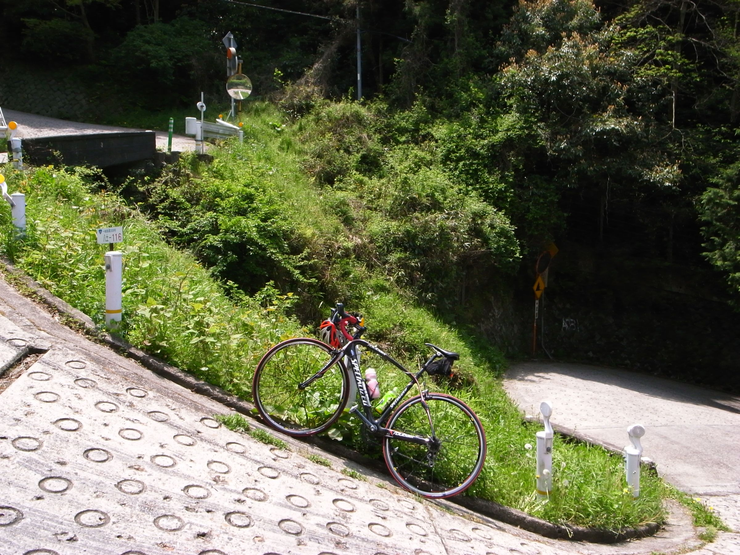 37 percent slope on the way to Kuragari Pass on the National Route 308/Osaka Prefectural Road and Nara Prefectural Road Route 702 in Higashiosaka City, Osaka Prefecture, Japan